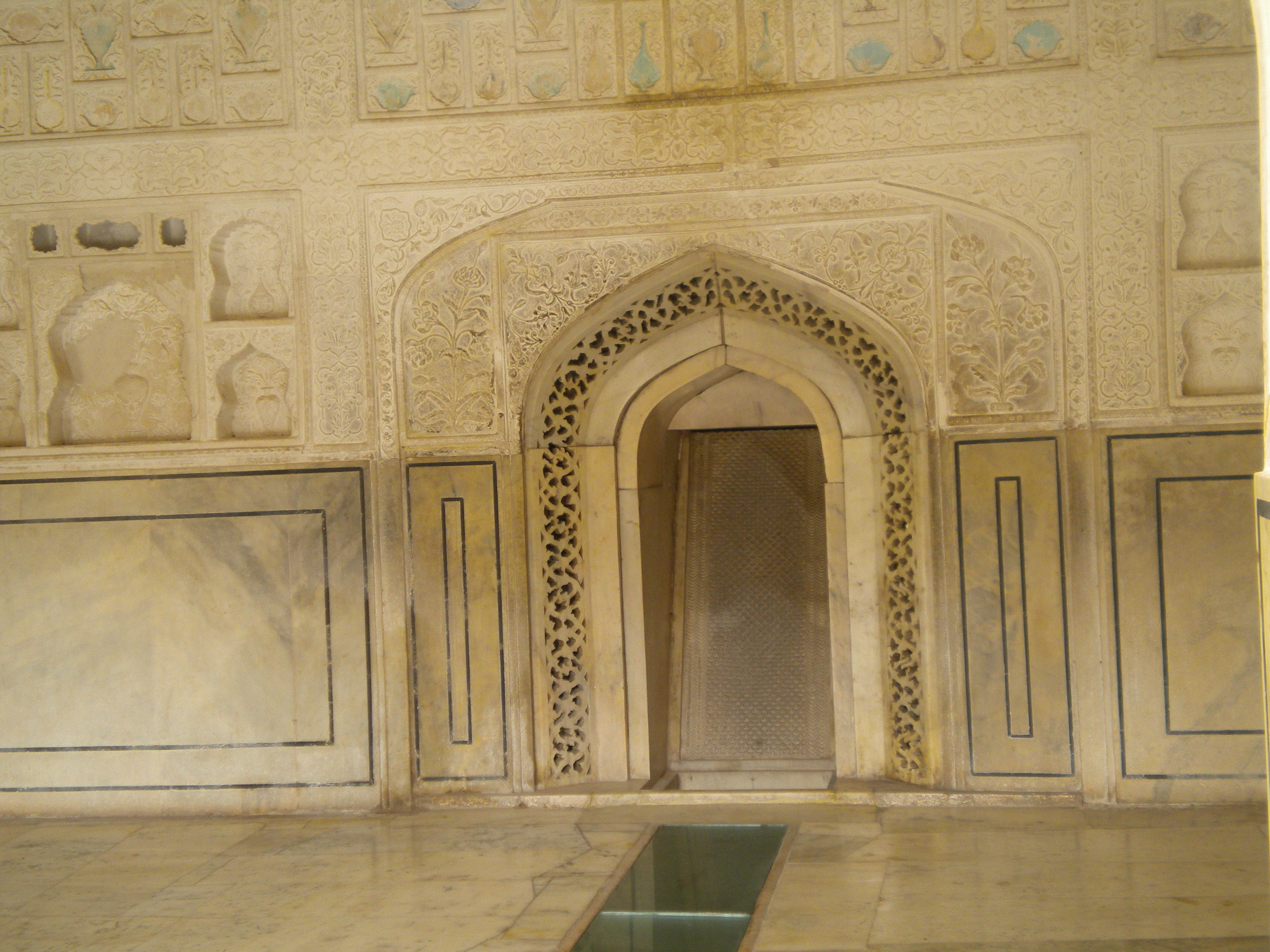 Air Cooling system and water channel at Sukh Niwas of Amber Fort